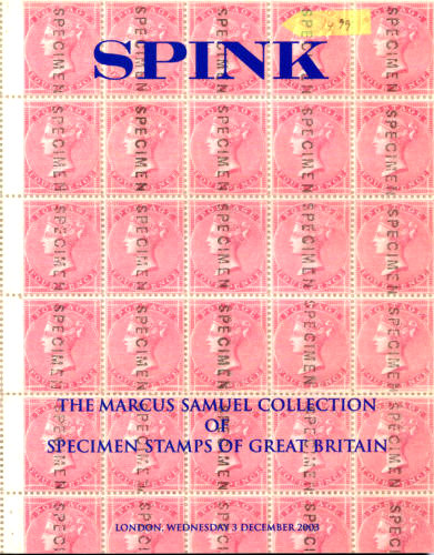 Catalogue for auction of Marcus Samuel Collection of Specimen Stamps of Great Britain, Spink, 2003.